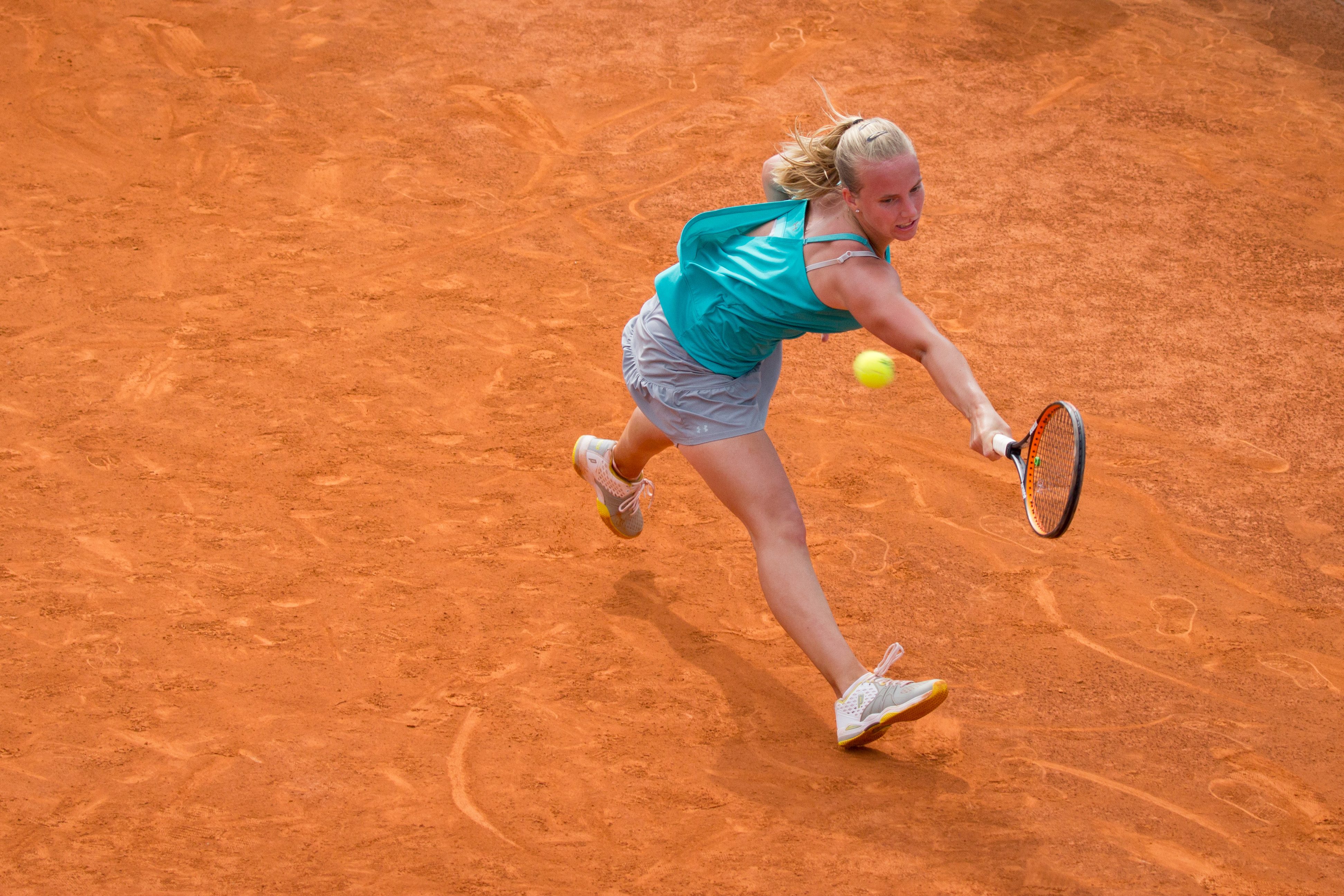 Richèl Hogenkamp at the Madrid Open 2015, Madrid, Spain.